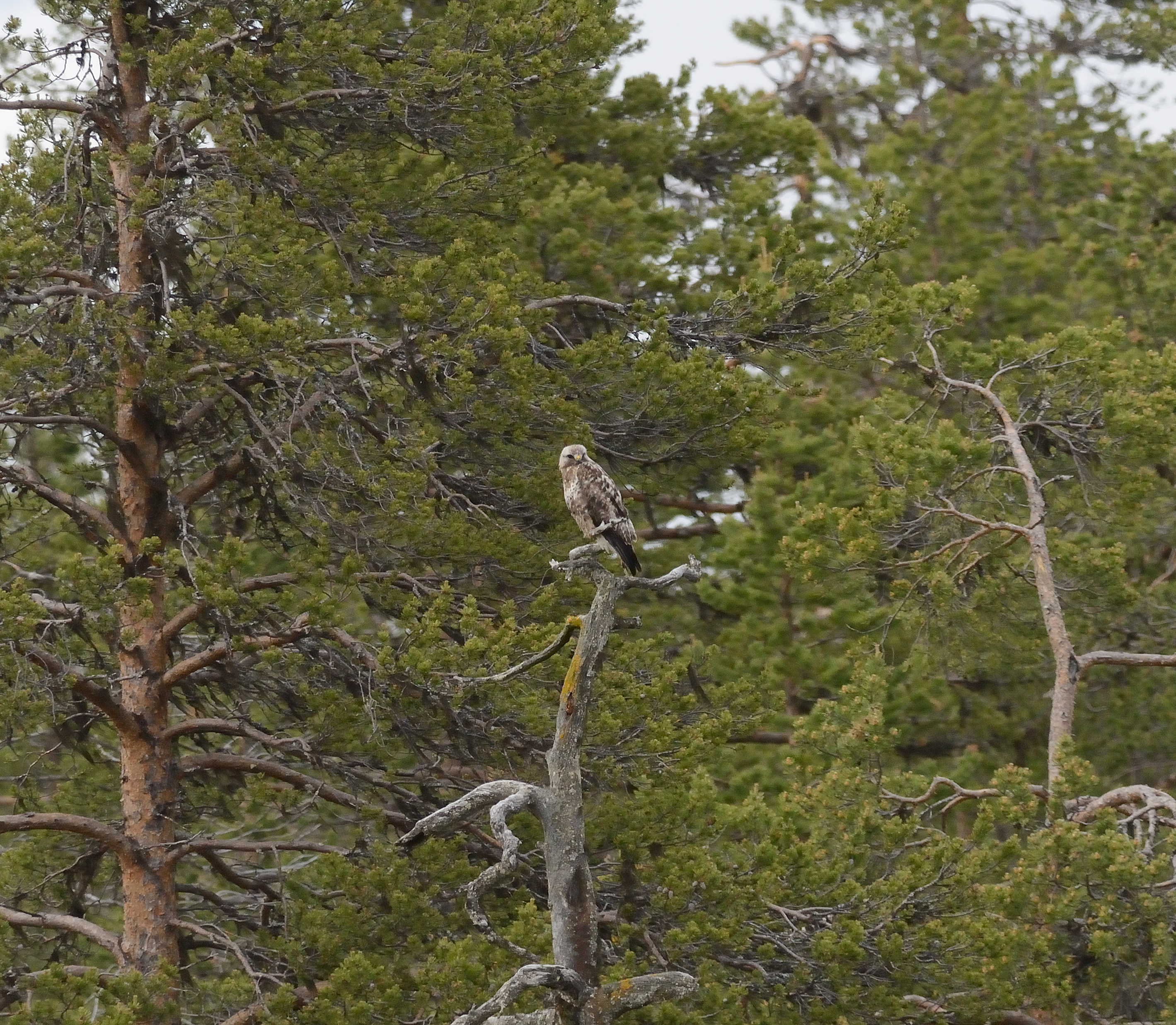 Rough-legged Buzzard (Buteo lagopus) in Muddus